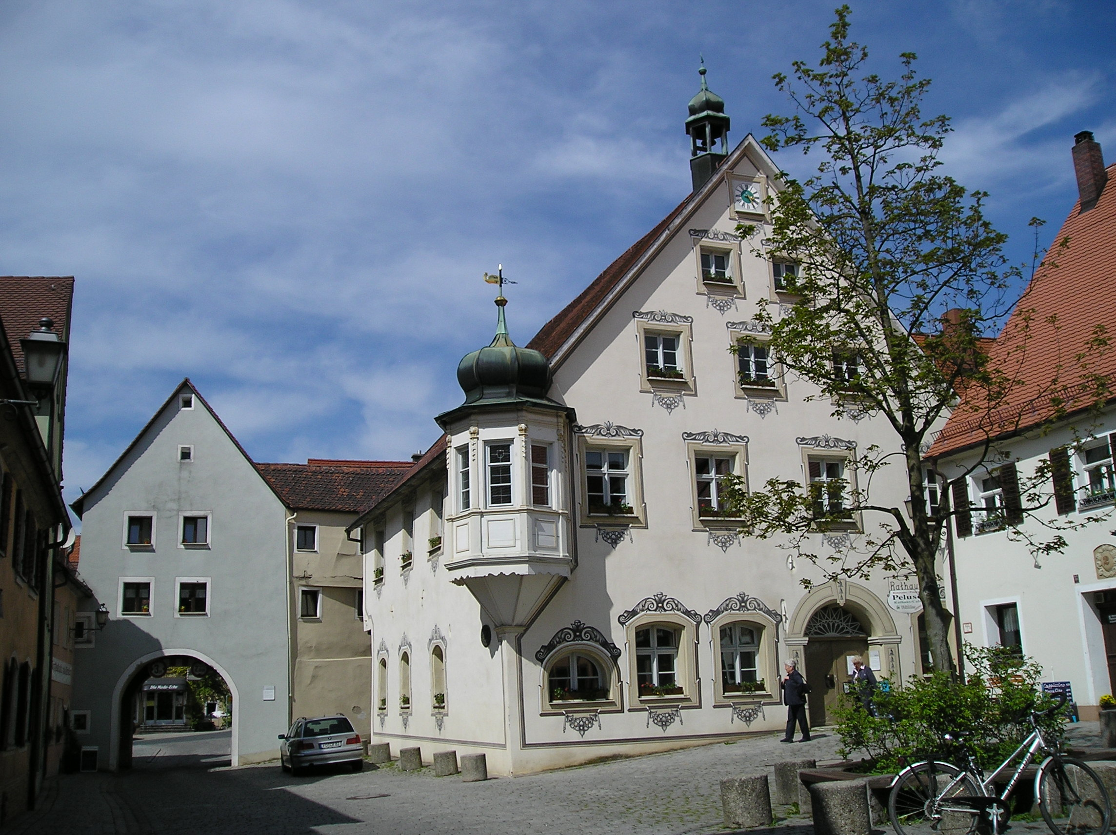 Old baroque town hall in the old town of Gräfenberg (Franconian Swiss mountain range, north Bavaria, Germany) at the central market place. On the left you can see the "Egloffsteiner Tor" gate in the city wall still sourrounding a substantial part of the old town.